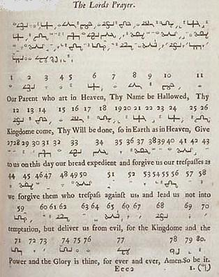 Sample of the constructed language ("real character") of John Wilkins, translation of the Lord's Prayer, from An Essay towards a Real Character and a Philosophical Language (1668).